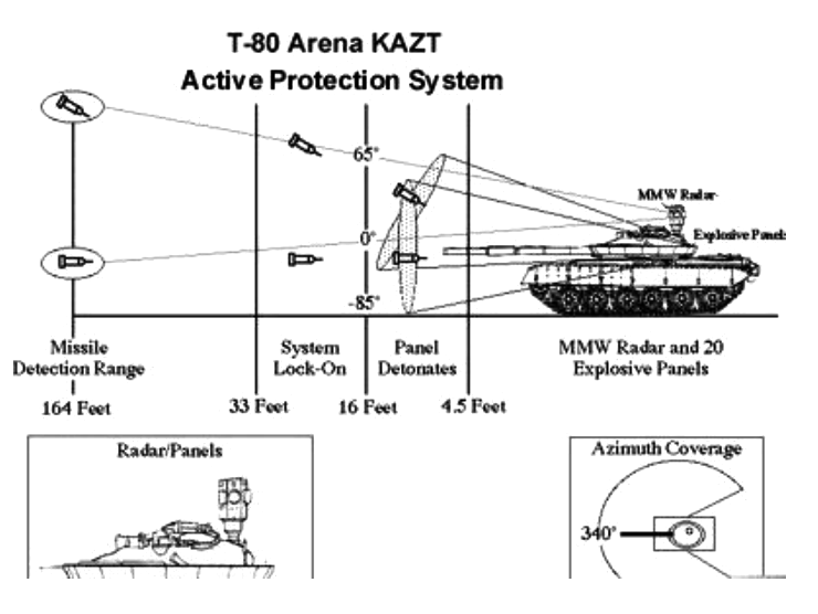 T-80 Arena KAZT Active Protection System.